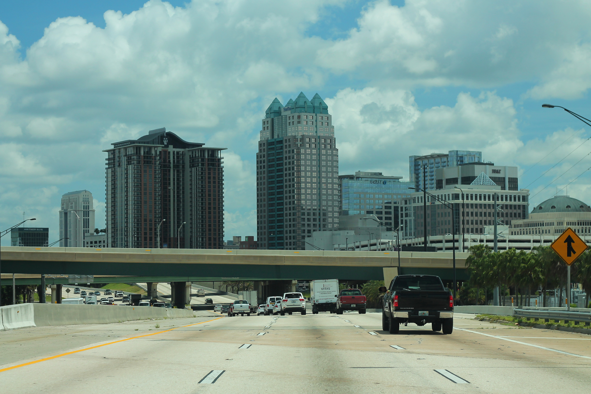 I-4 East - Orlando Downtown City Skyline